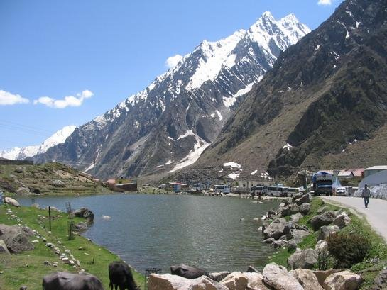 Sheeshtaal, Badrinath, Uttarakhand (May, 2005)